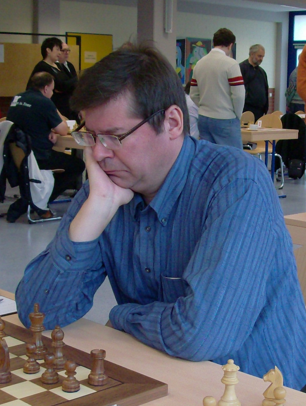 Igor Glek, Russian chess grandmaster